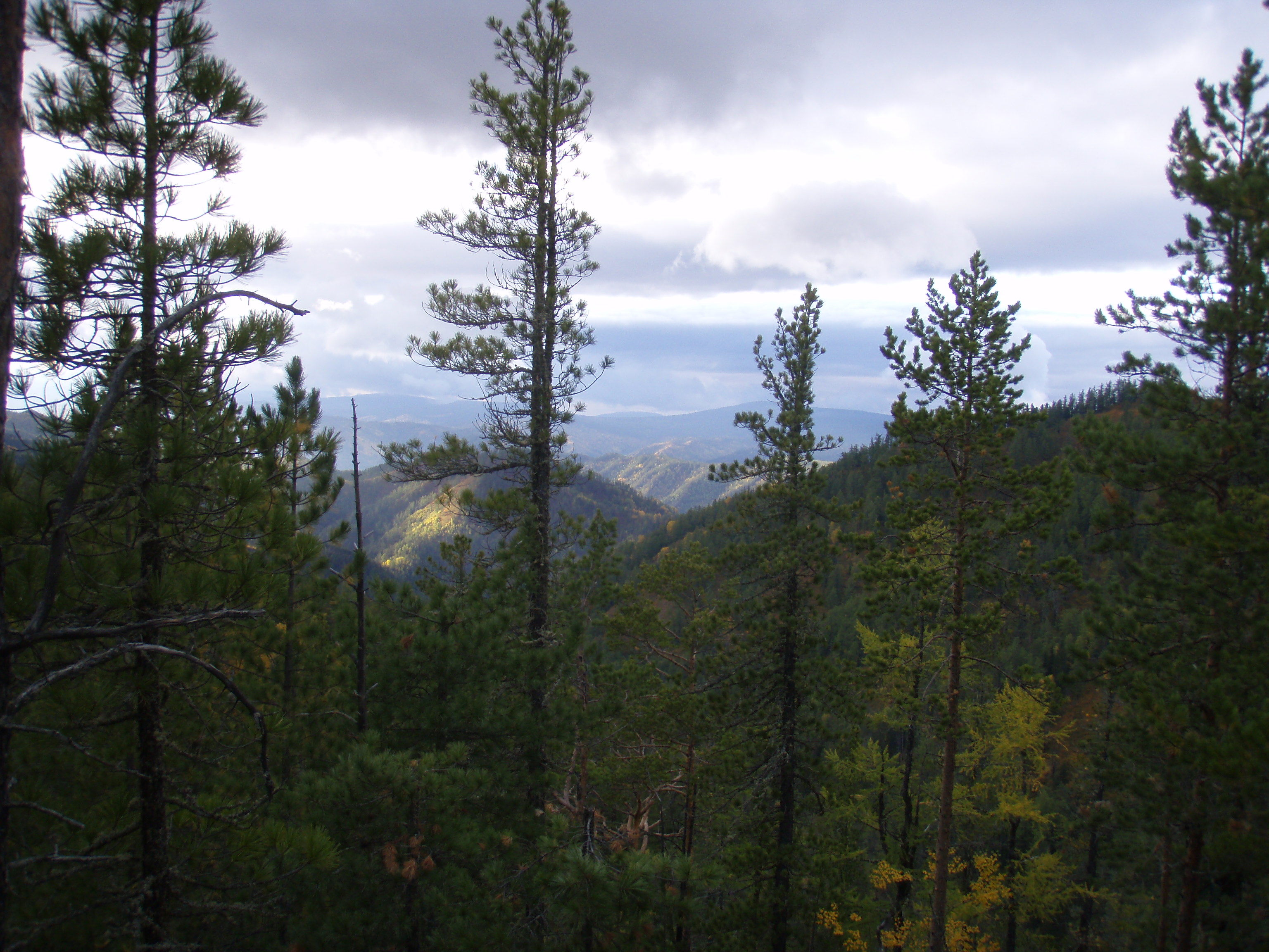 Siberian autumn 2011. Taiga (wild forest :) ).